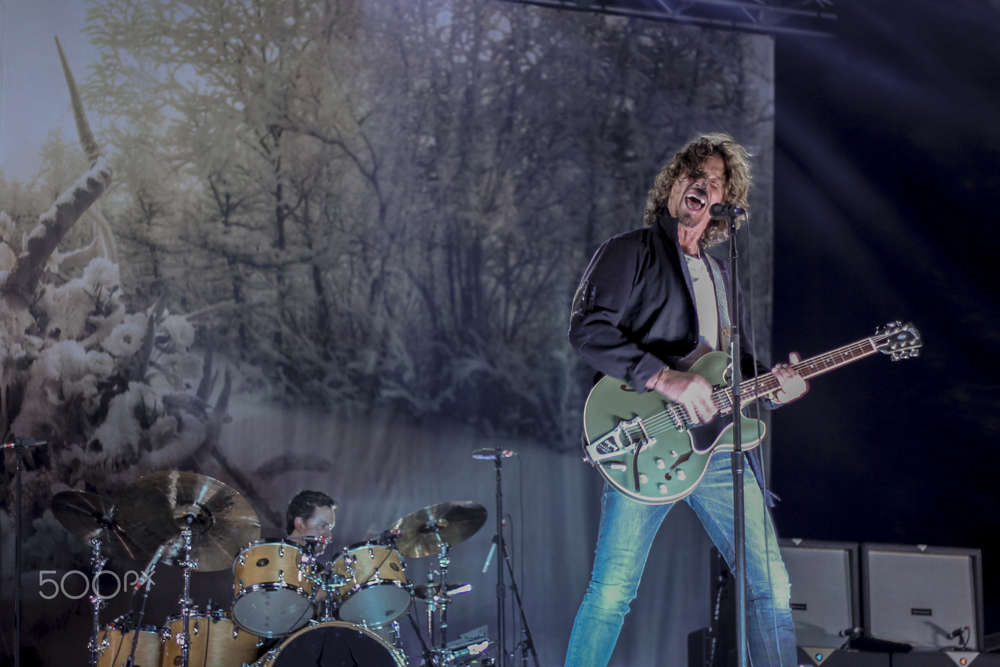 500px provided description: Soundgarden, Lollapalooza Fest 2015 [#concert ,#music ,#live ,#fotografia ,#chris cornell ,#soundgarden ,#concertphotography ,#vivo ,#musica ,#gigphotography ,#musicphotography ,#livemusicphotography ,#gigphoto ,#fotodeconciertos ,#staqrs]